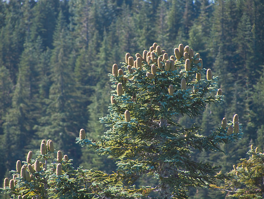 Top of a Noble Fir at Sherrard Point, Palmer, Multnomah Co., Oregon